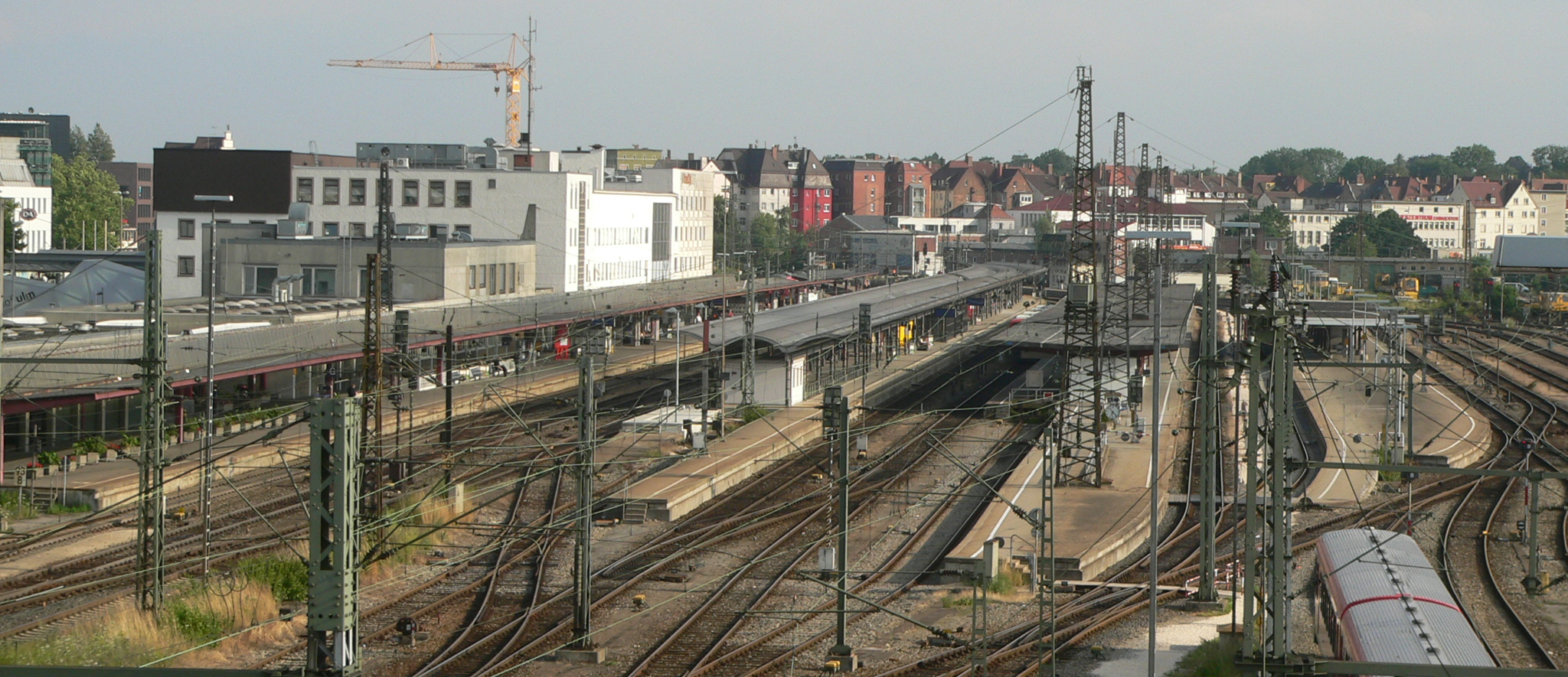 Main station Ulm, Germany